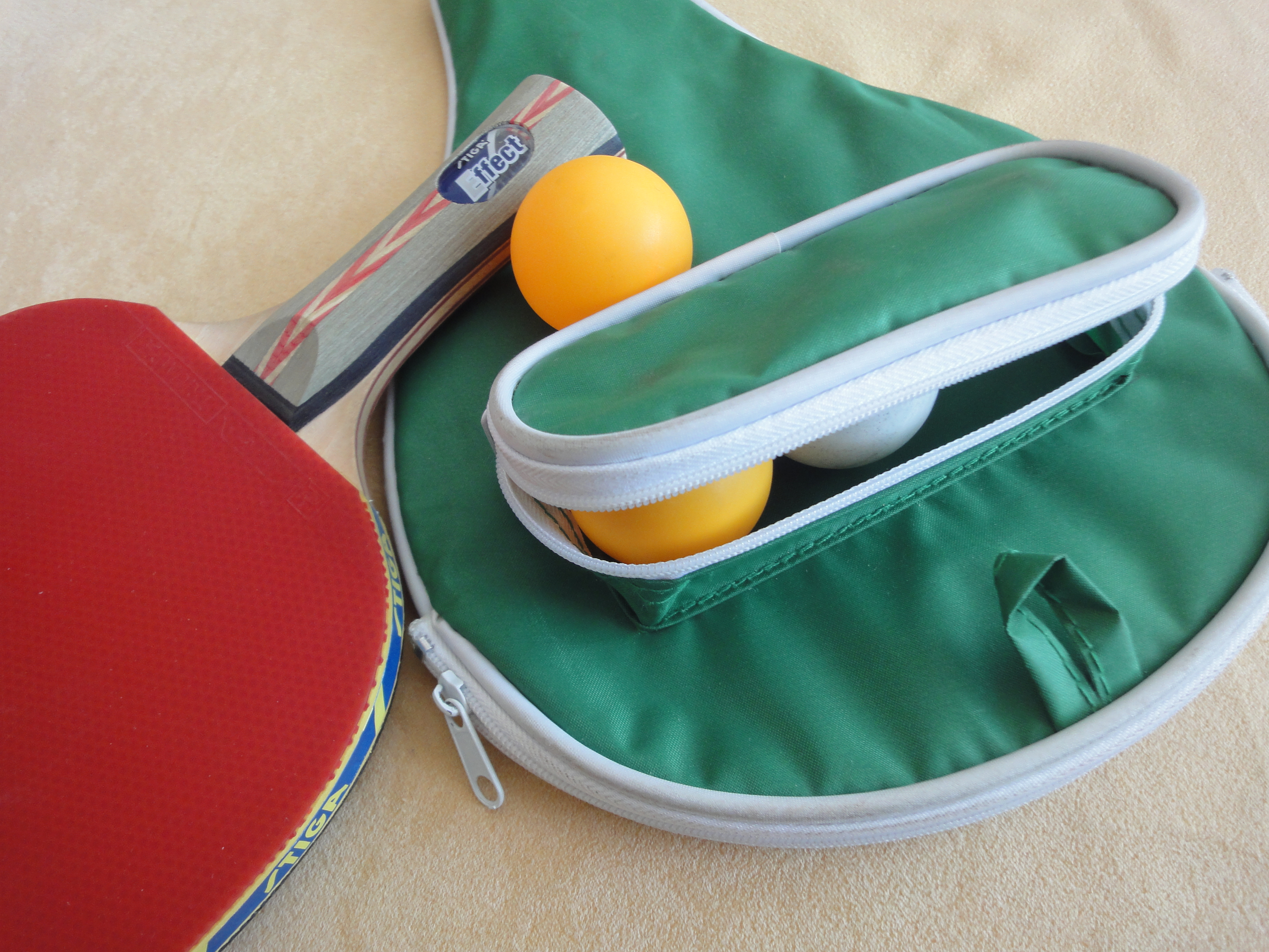 Table tennis bat with cover and balls